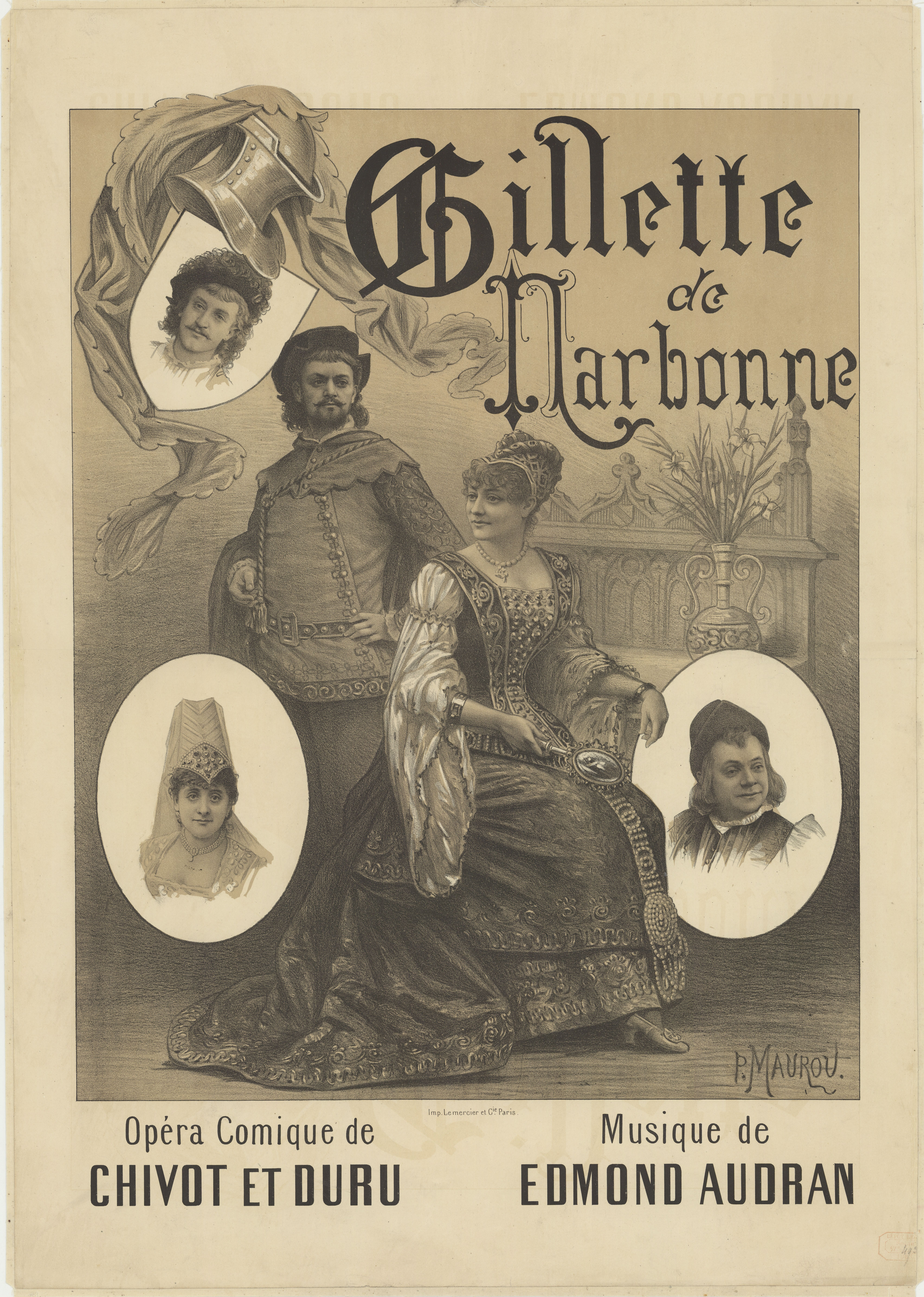 Poster for Gillette de Narbonne, an opera by Edmond Audran with words by Alfred Duru and Henri Chivot. From the original production, albeit not the opening (it ran from November 1882 to March 1883).